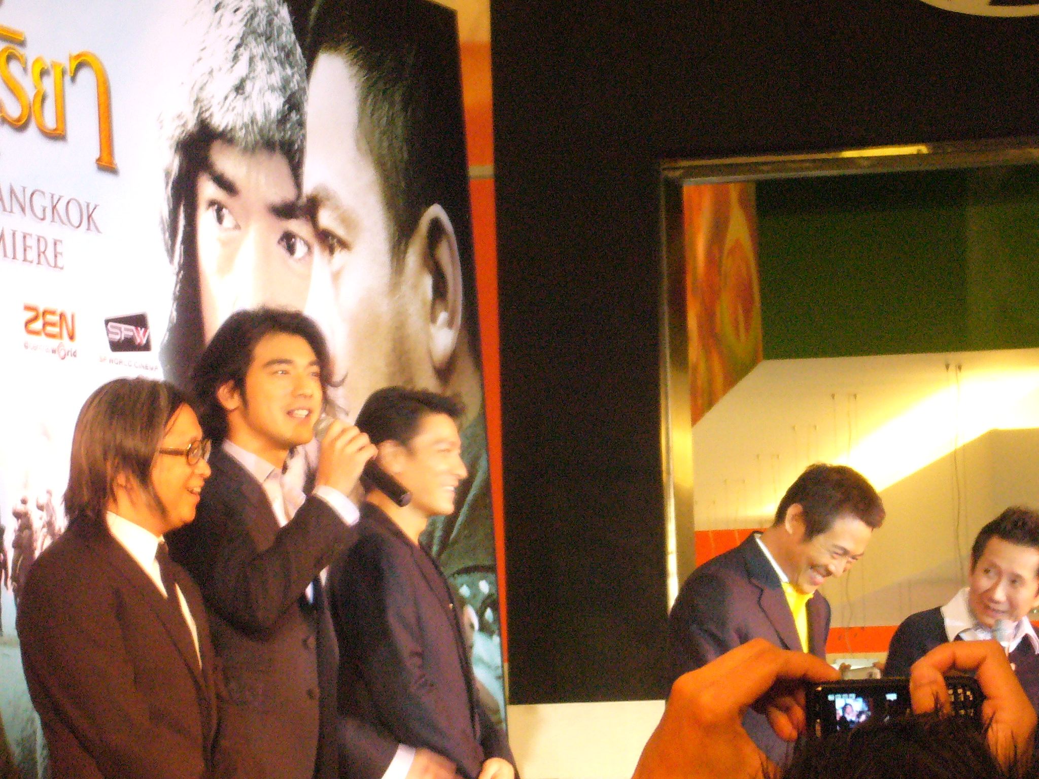 Peter Chan,Takeshi Kaneshiro,Andy Lau and Jet Li at the preview of the film The Warlords at SF World Cinema, CentralWorld, Bangkok.